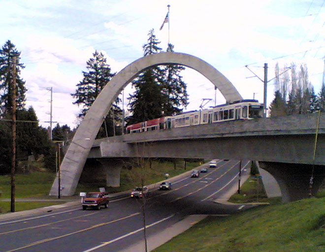 A MAX Light Rail train in Hillsboro as it passes above Main St. Taken by User:Cacophony on 3/31/06.